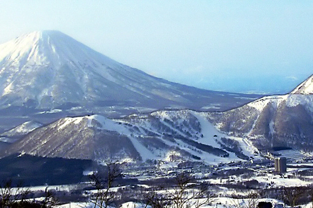 Rusutsu Resort is a ski resort in Hokkaido, Japan.